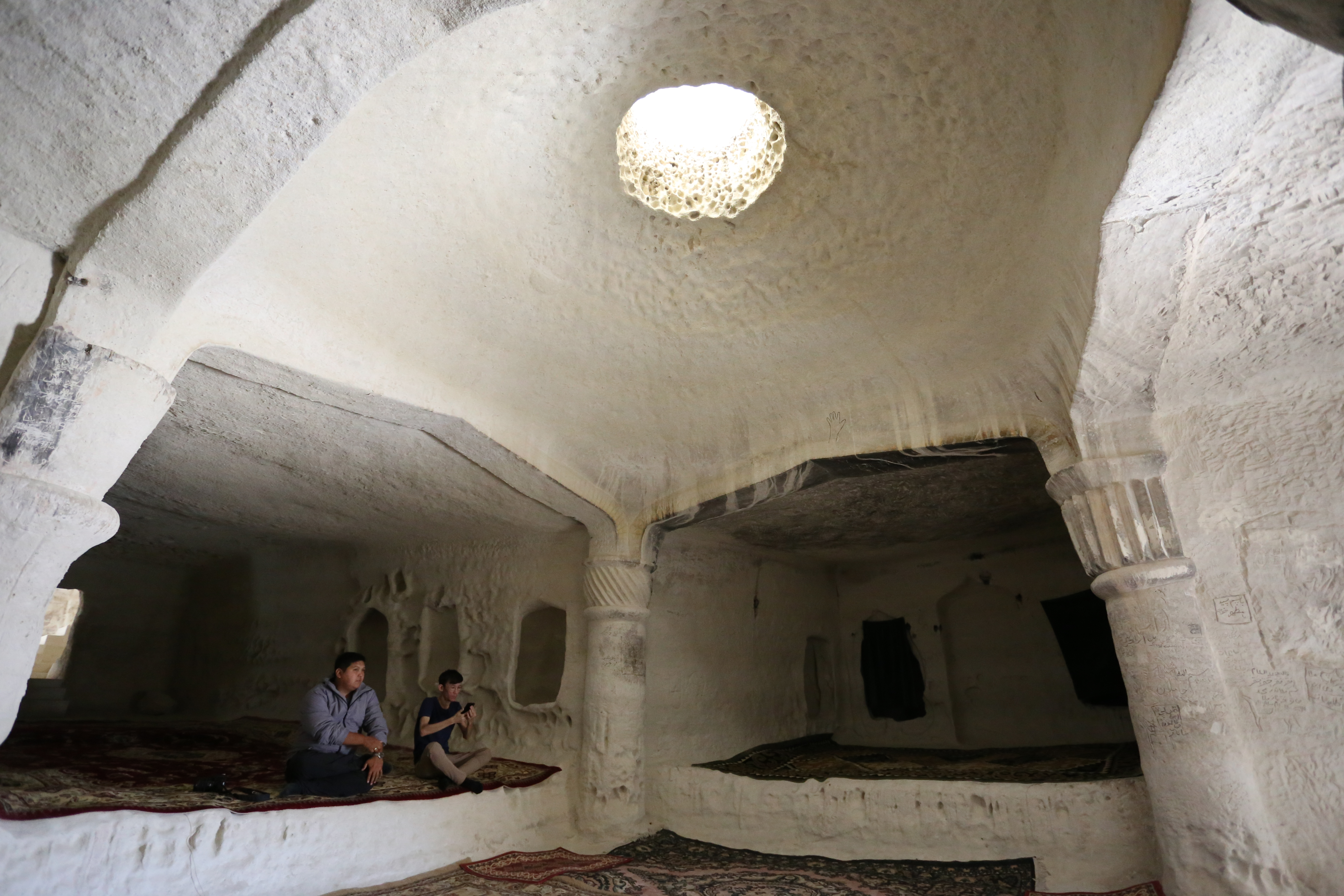 Shakpak-Ata Mosque